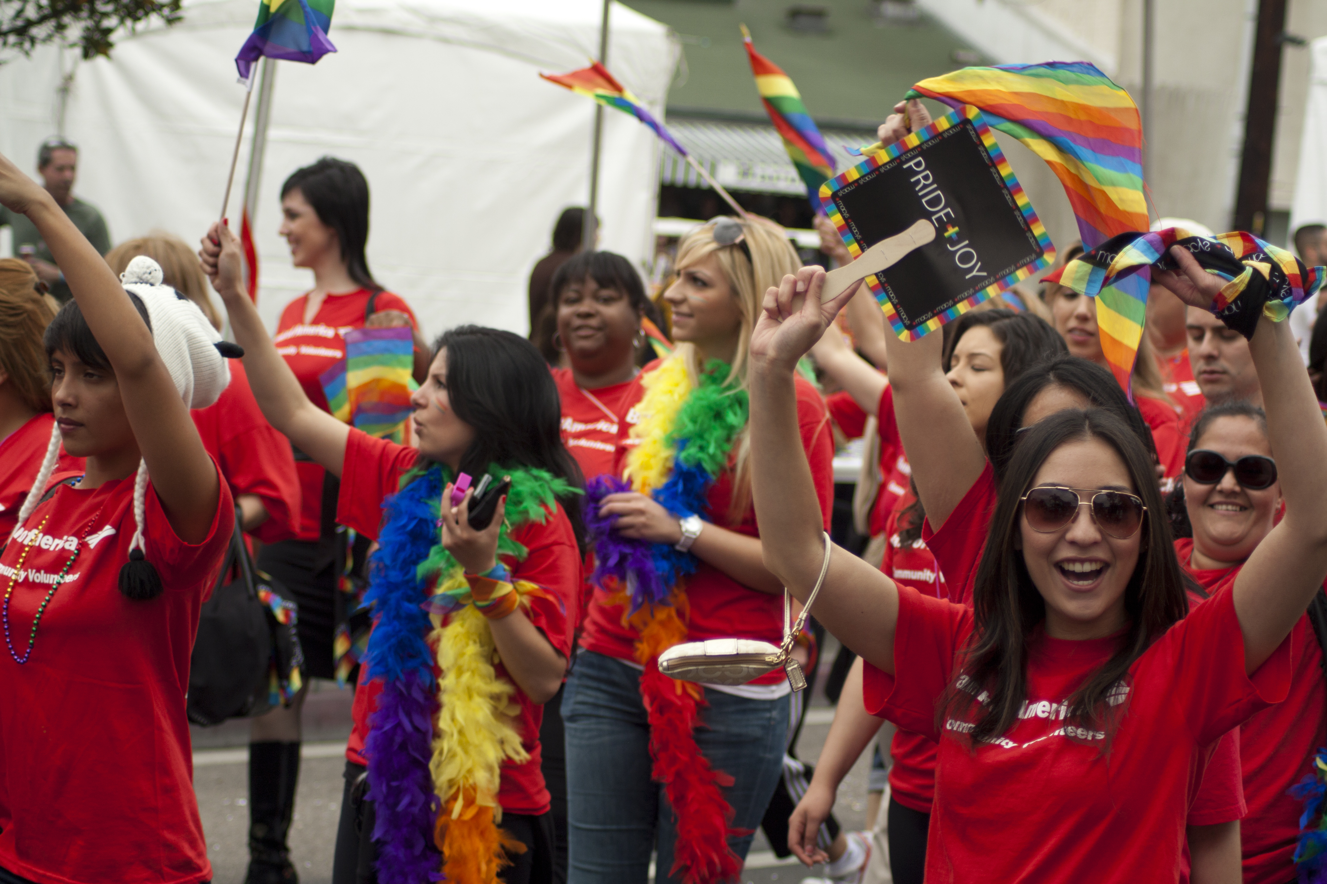 Bank of America at LA Pride 2011 (June 12)